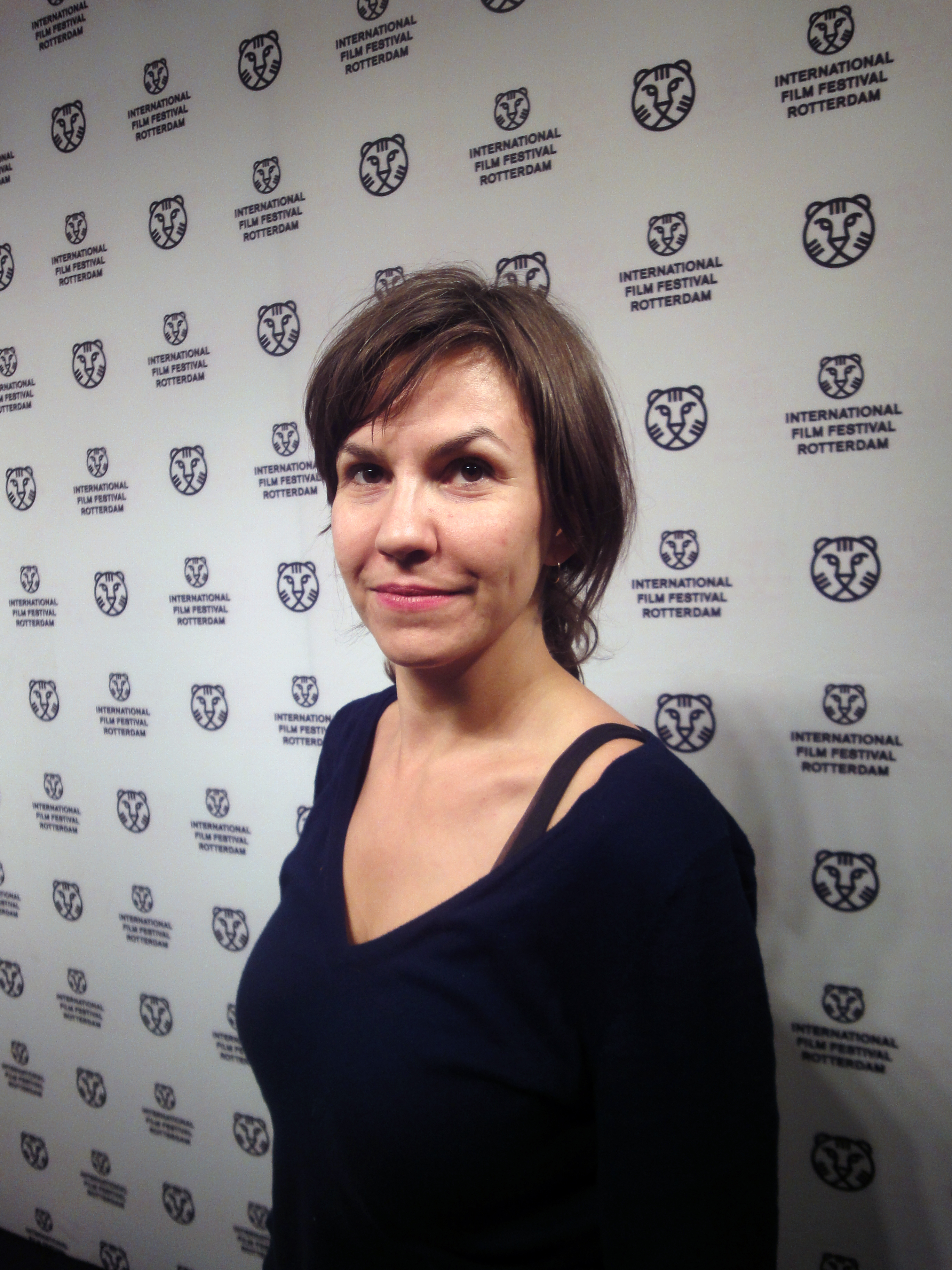 Kerry Tribe, film director, at IFFR 2013